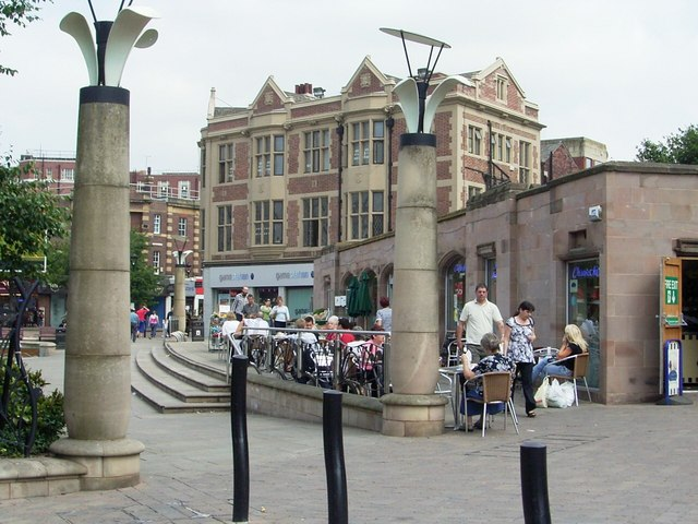 All Saints Square.